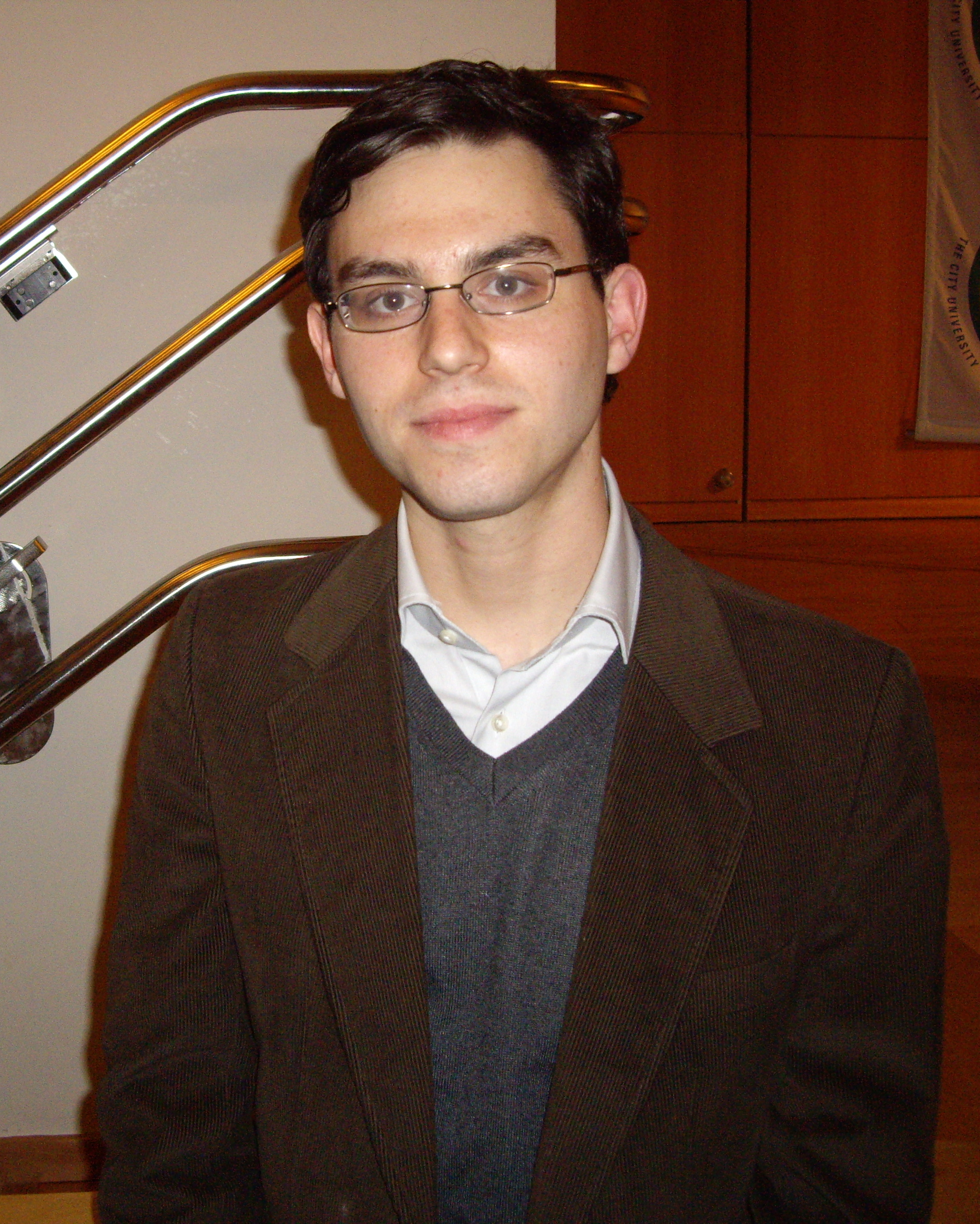 Joshua Foer at the Athanius Kircher Society Meeting, 2007